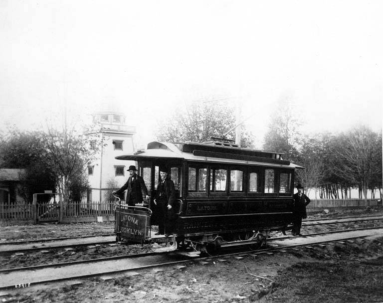 Original photographer unknown. David T. Denny posing with motorman on front platform; at right on end platform is David Denny, Jr. Subjects (LCTGM): Street railroads--Washington (State)--Seattle Subjects (LCSH): Denny, David T.; Denny, David, Junior.